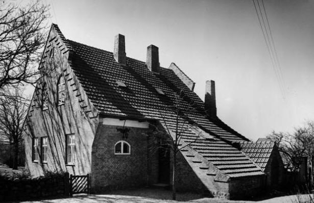 Old photograph of a house designed by P. V. Jensen-Klint (1853–1930) for the composer Thorvald Aagaard in Ryslinge on the Danish island of Funen (1907)